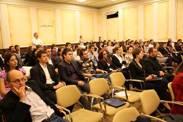 Members of Széchenyi István College for Advanced Studies at a conference, Corvinus University of Budapest, Hungary.